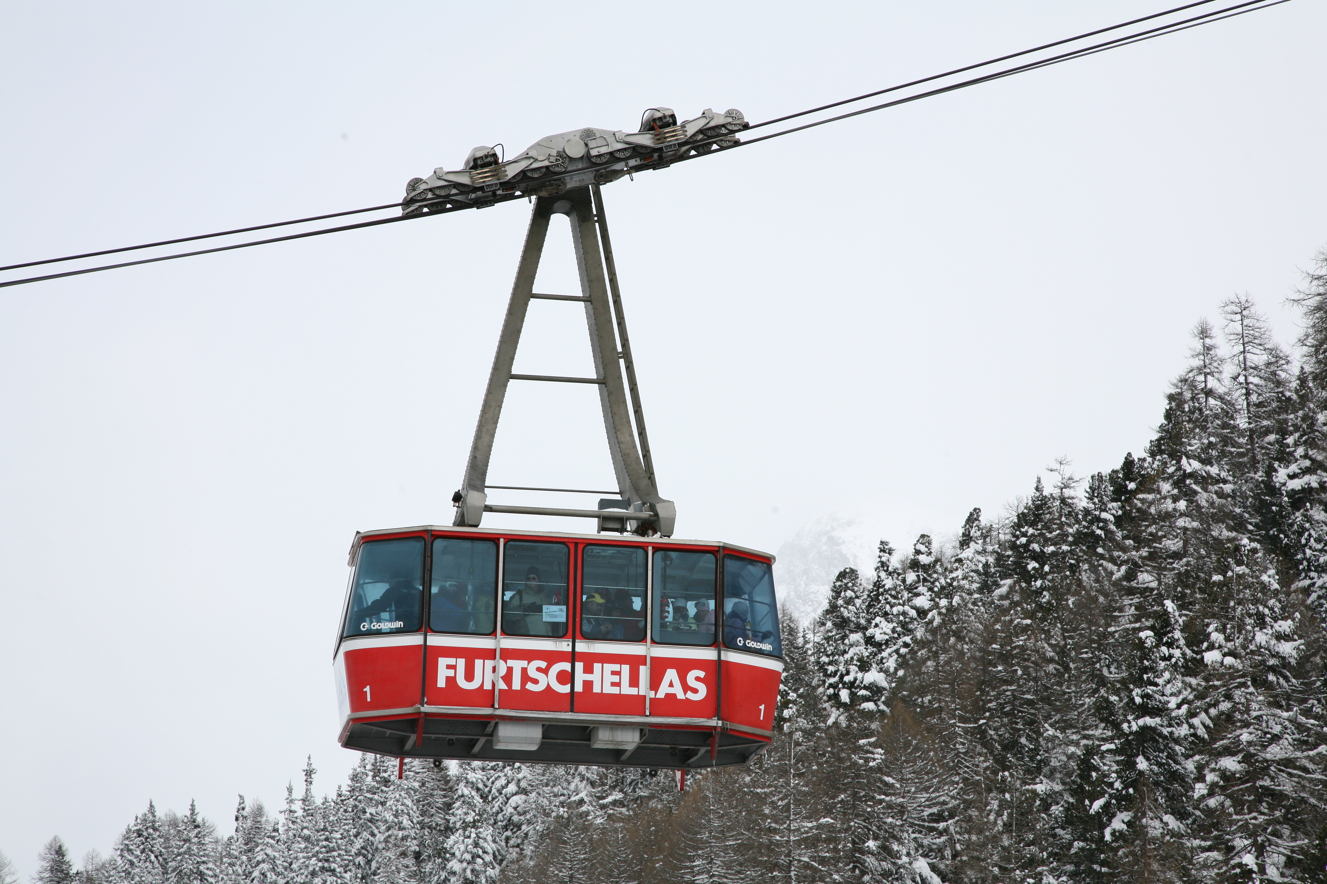 Furtschellas aerial tram, Engadin, Switzerland.